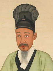 Portrait of Heungseon Daewongun, Yi Haeung wearing Waryonggwan and Hakchangui